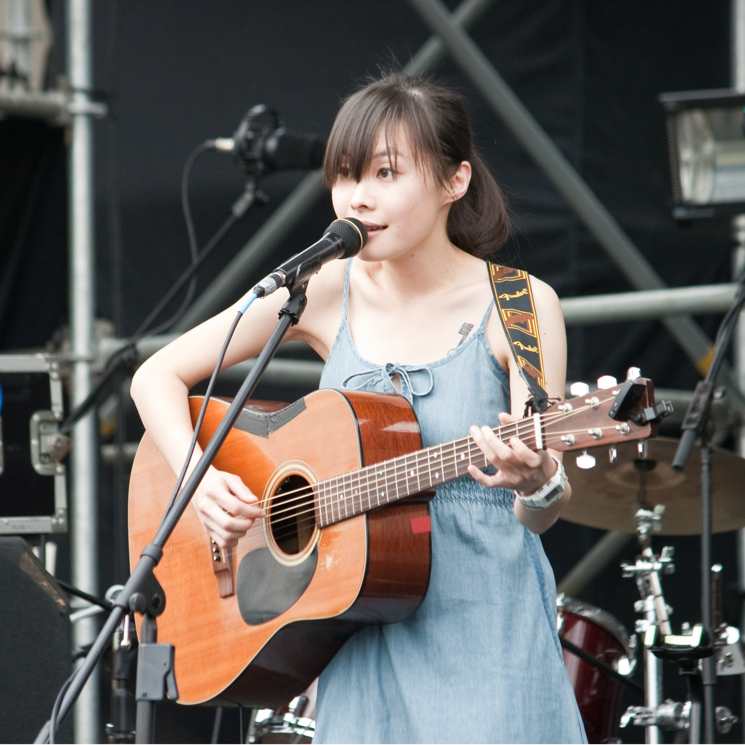 Taiwanese indie singer-songwriter Enno Cheng (鄭宜農) performing at the Mega Port Festival. Kaohsiung, Taiwan.